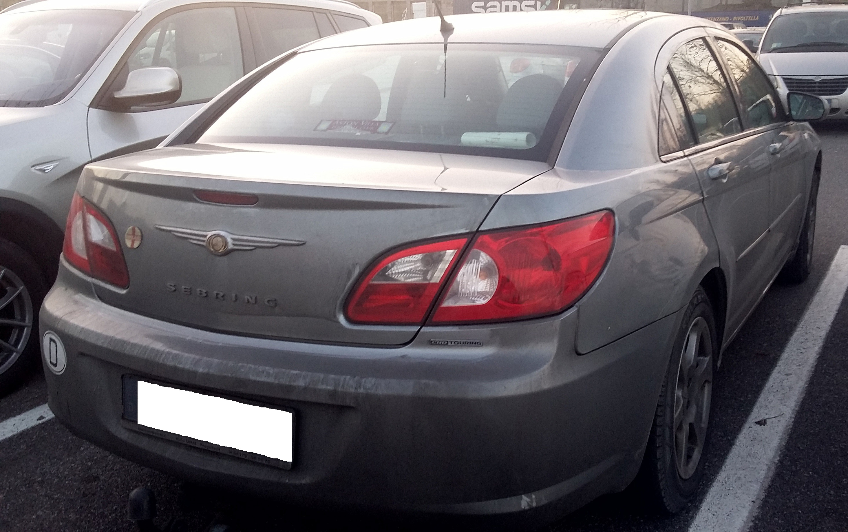 2006-2010 Chrysler Sebring JS